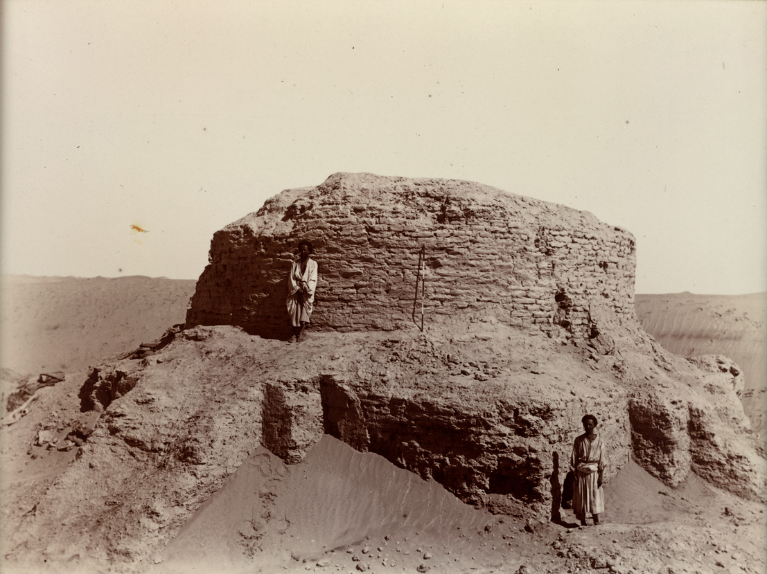 Rawak stupa from above southwest wall. 17 September 1906.